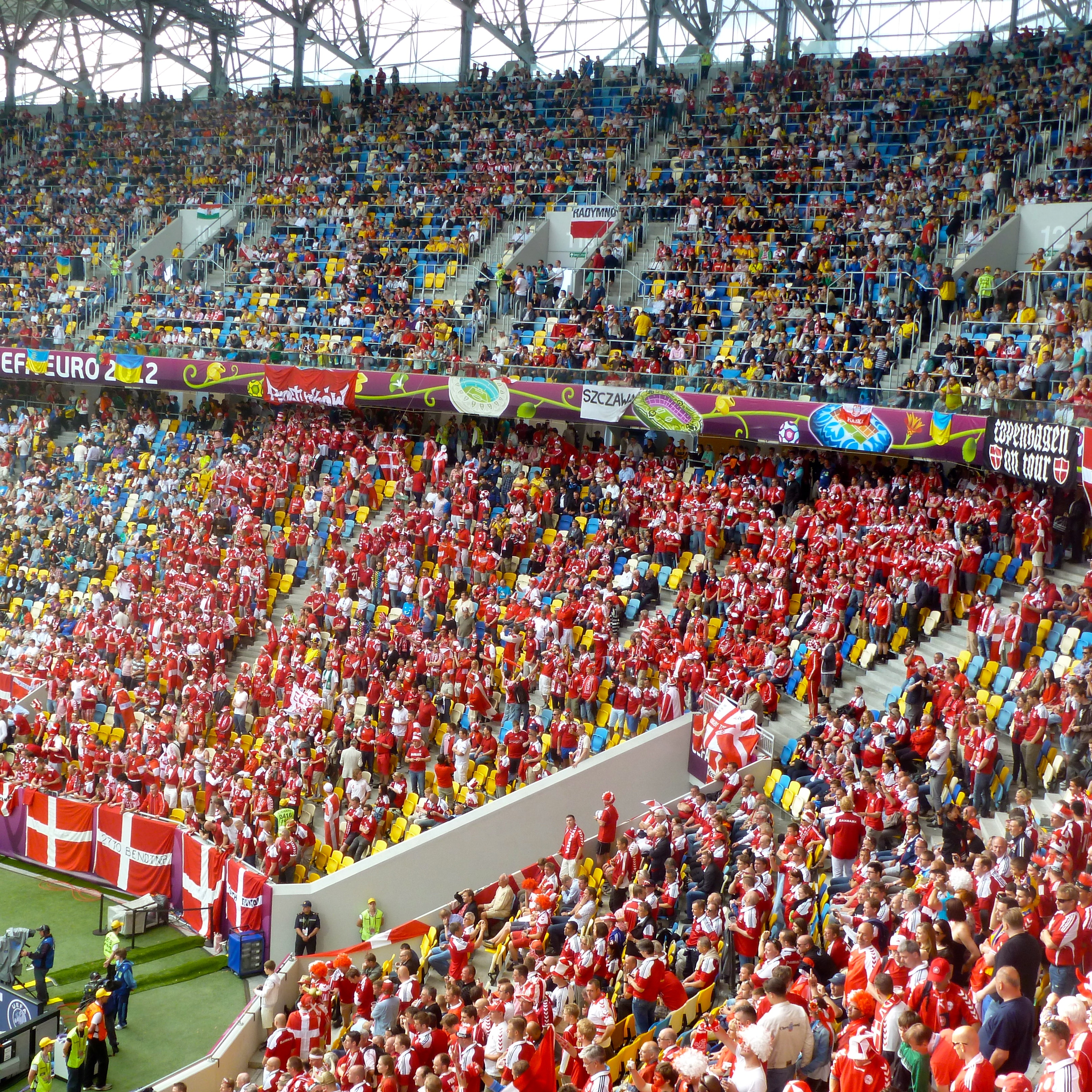 Danish fans on UEFA Euro 2012.